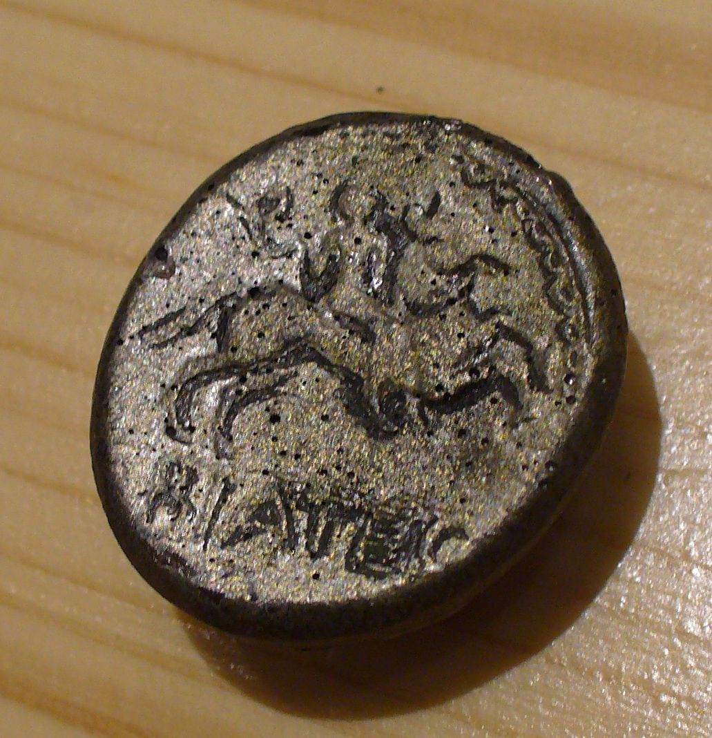 Celts coin biatec from Slovak National Museum.